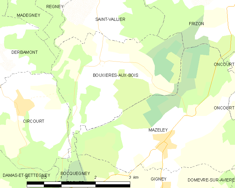 Map of French municipality Bouxières-aux-Bois